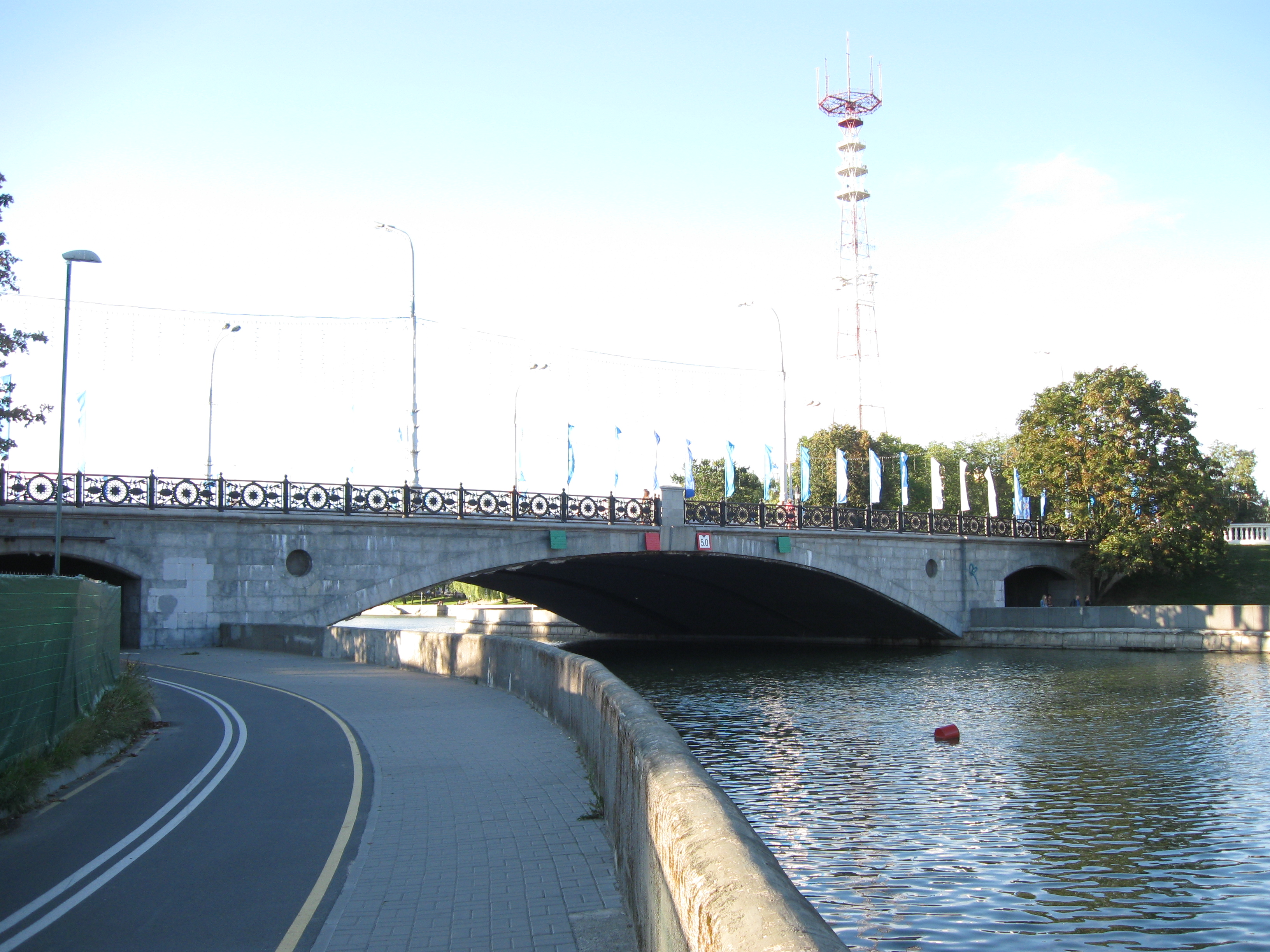 A bridge over Svislach river in Minsk, Belarus